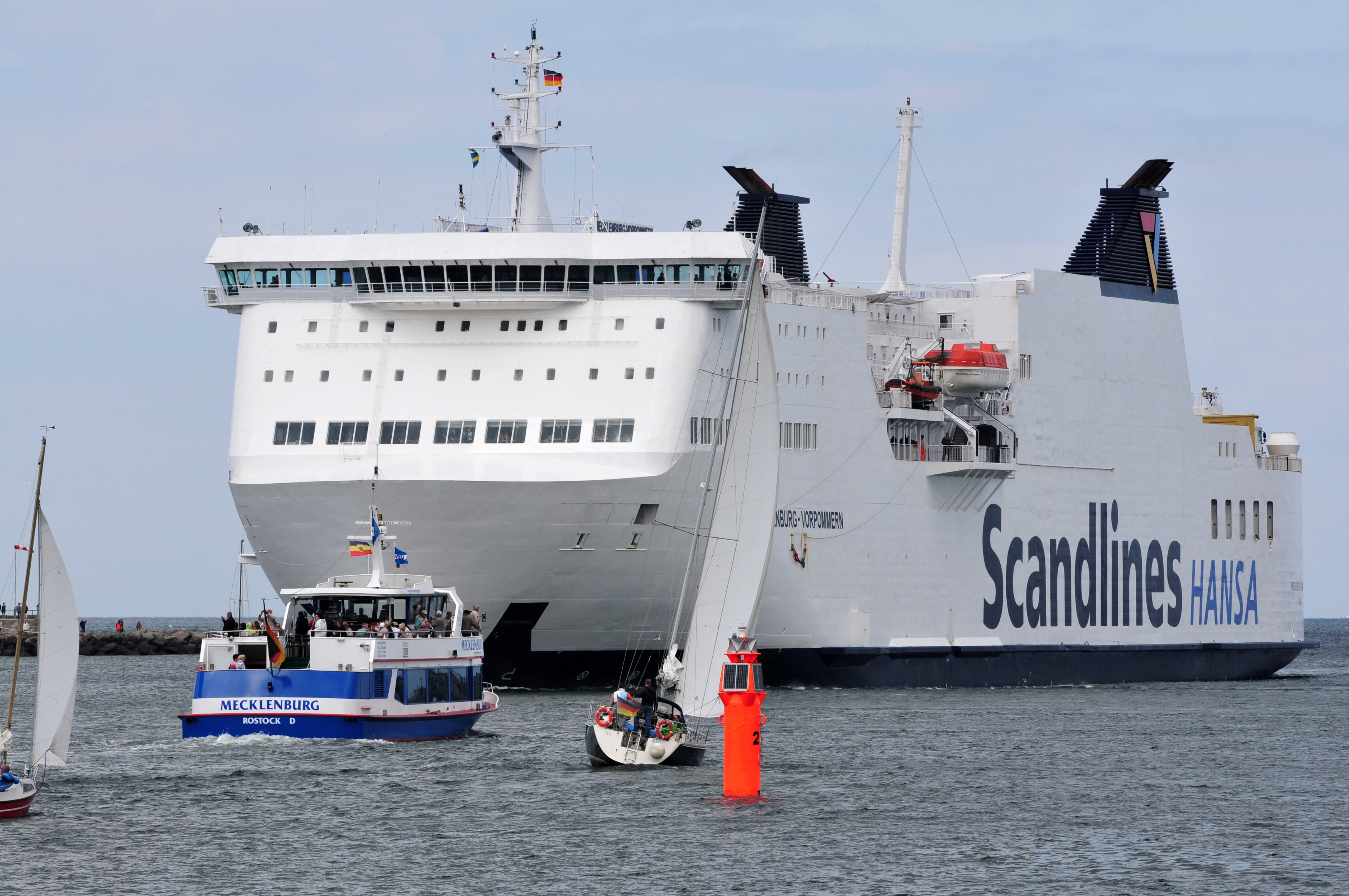 Warnemünde, Baltic Sea, Germany, Mecklenburg-Vorpommern (ship, 1996)